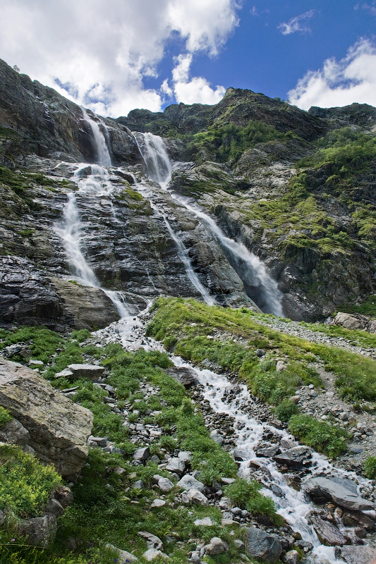 Water falling from heavens